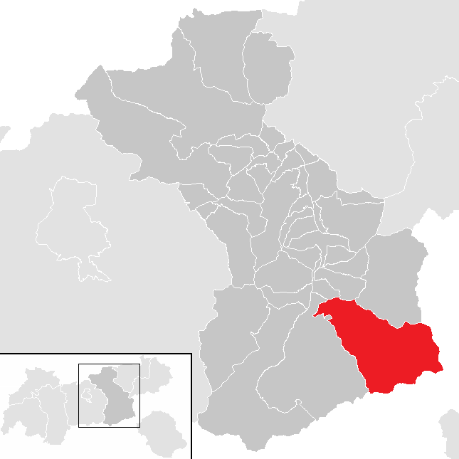 District Schwaz